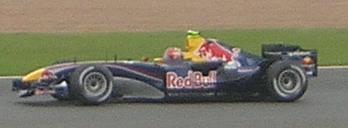 Vitantonio Liuzzi driving for Red Bull Racing at the 2005 British Grand Prix.